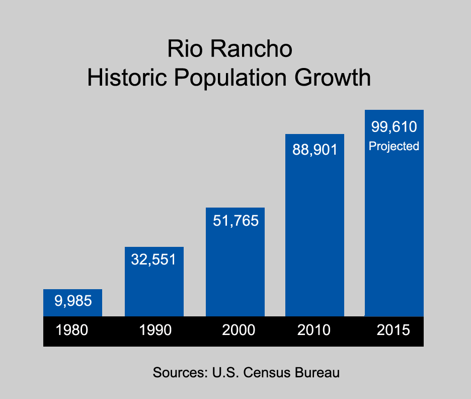 Graph shows the population growth of Rio Rancho, New Mexico